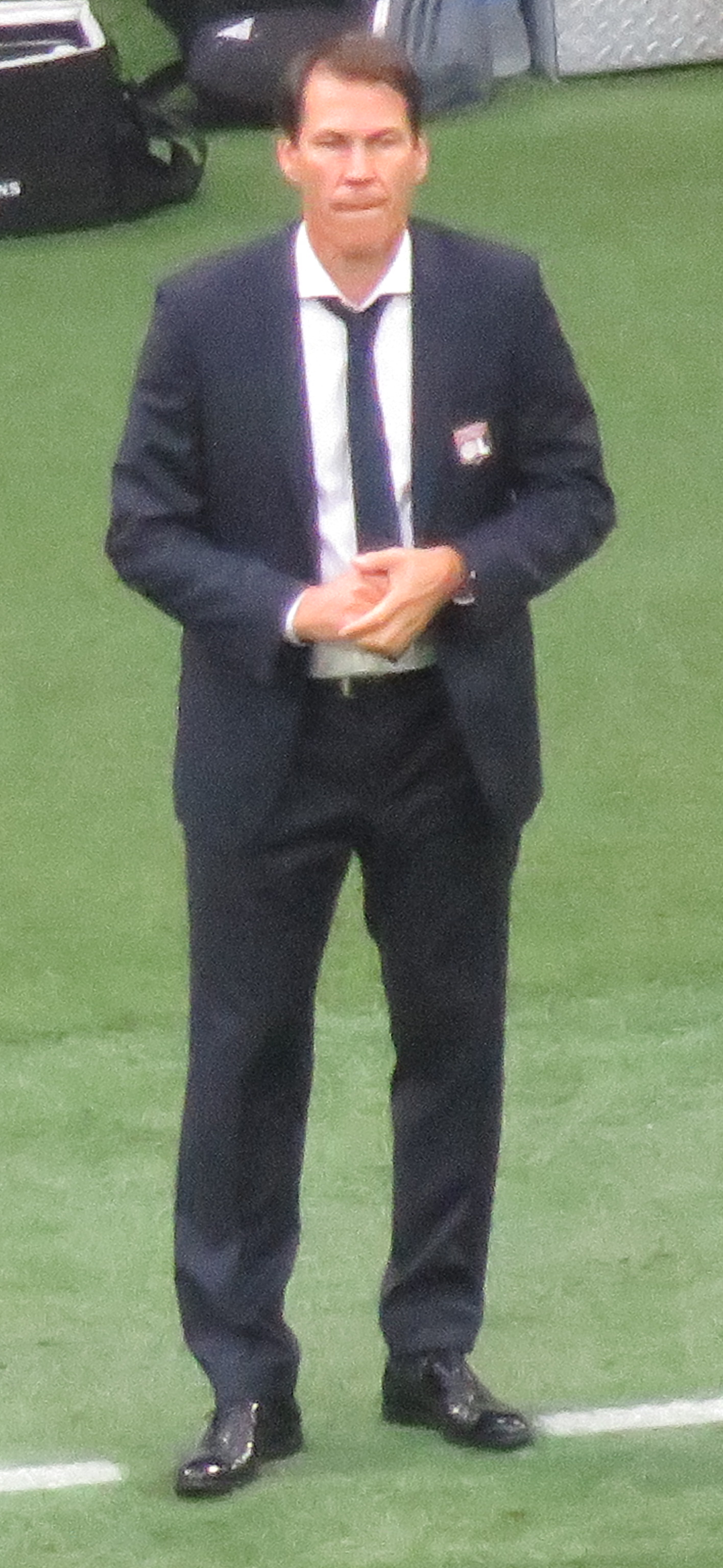 Rudi Garcia, 19 October 2019, for his first match with Olympique Lyonnais who receives Dijon FCO